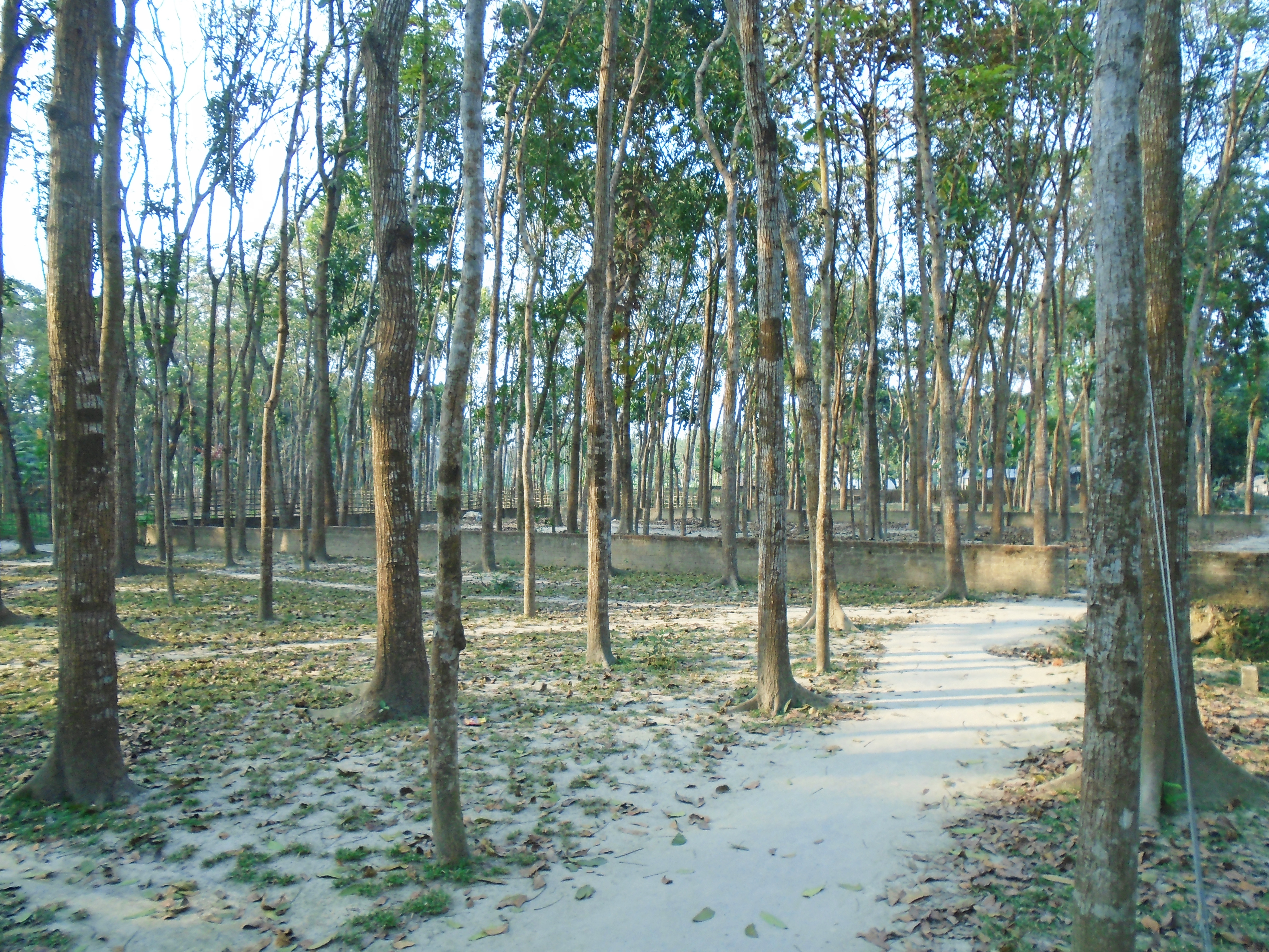 Mahagoni tree plantaion in Jessore, Bangladesh.